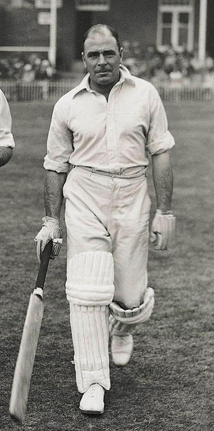 Cricket, 1927, A picture of VWC (Vallance William Crisp) Jupp, the Sussex, Northamptonshire and England right-handed batsman and slow-medium off-break bowler, seen here walking out to bat at the Scarborough Cricket Festival